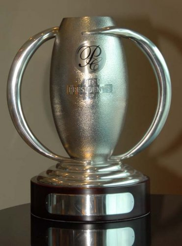 Trophy of AFC President's Cup. Suprah™| (talk|) 10:13, 13 September 2009 (UTC)